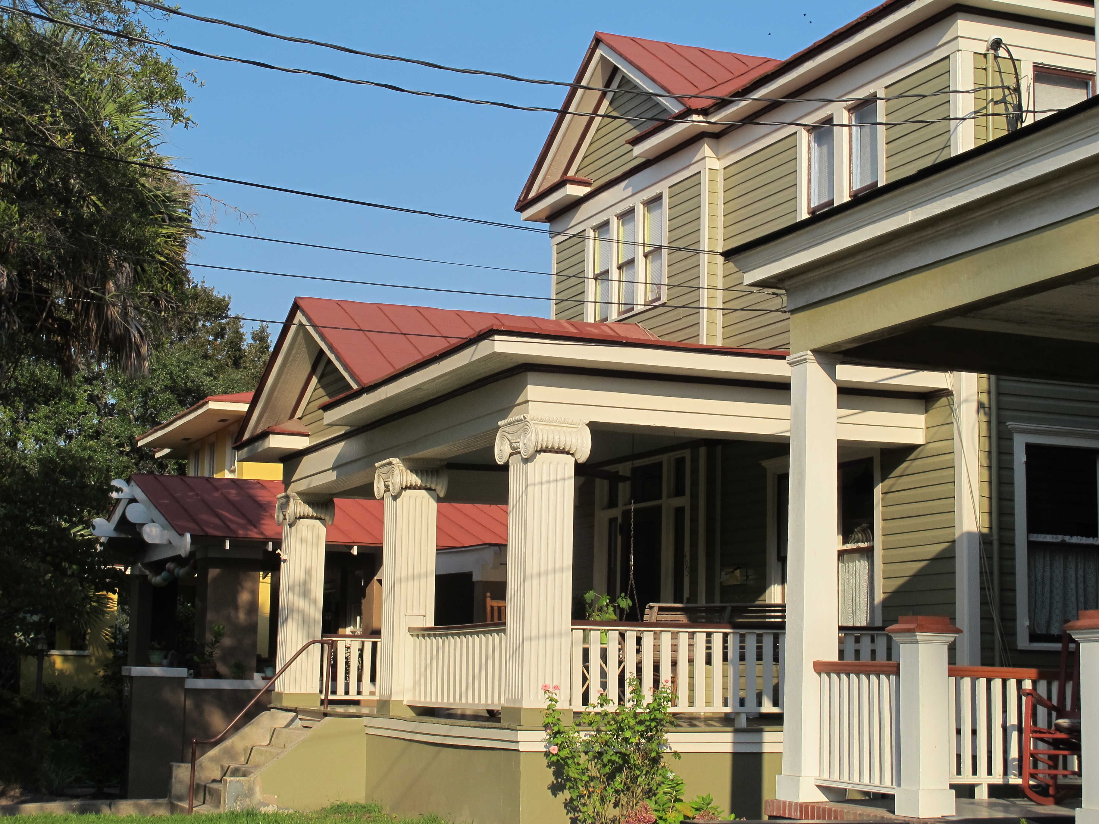 Hampton Park Terrace was built mainly from about 1912 to 1925, producing a very consistent streetscape along Huger St.